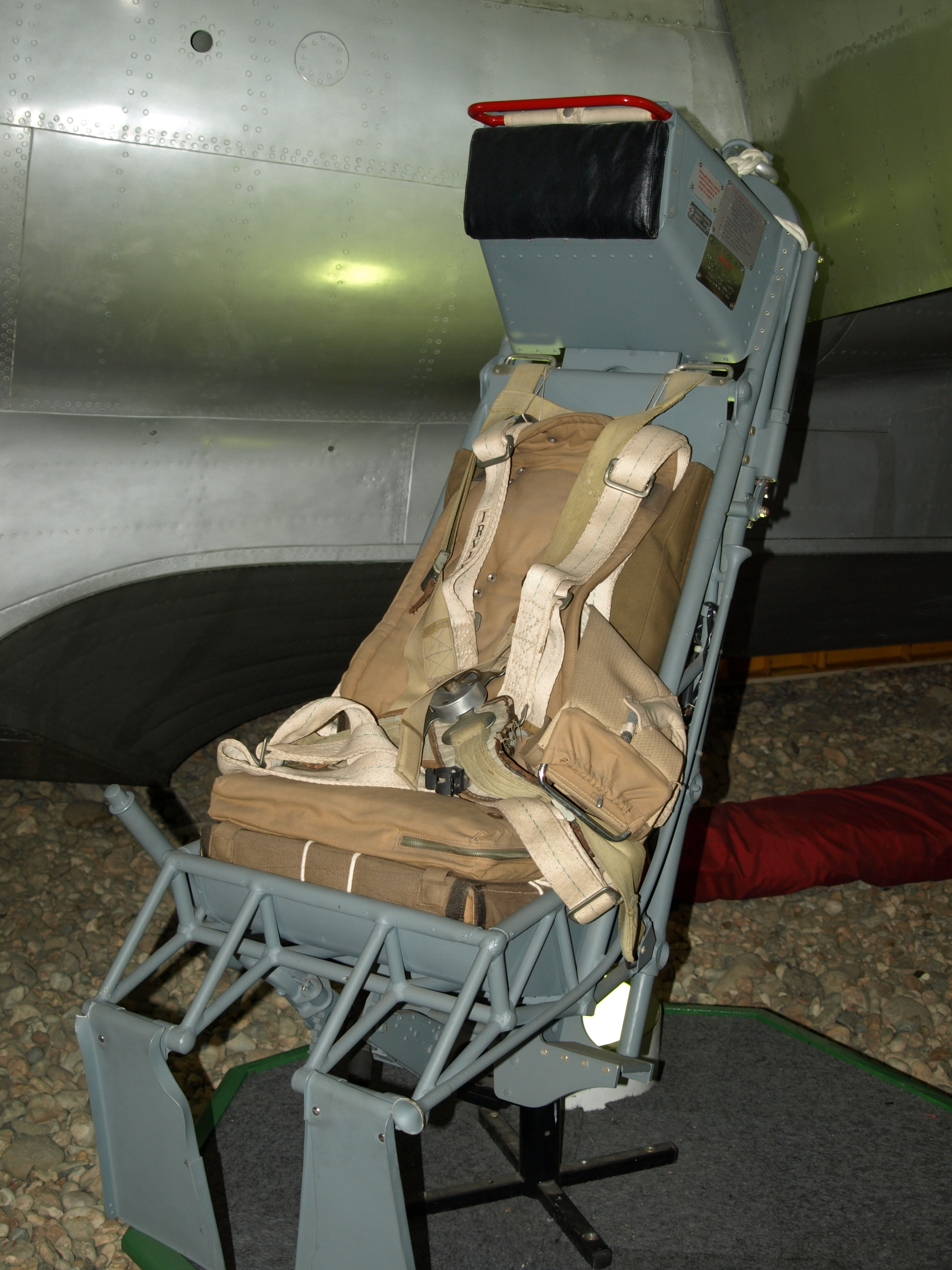 Martin-Baker Mk.1 pre-production ejection seat as fitted to the Saunders-Roe SRA1, on display alongside the aircraft at Solent Sky, Southampton.